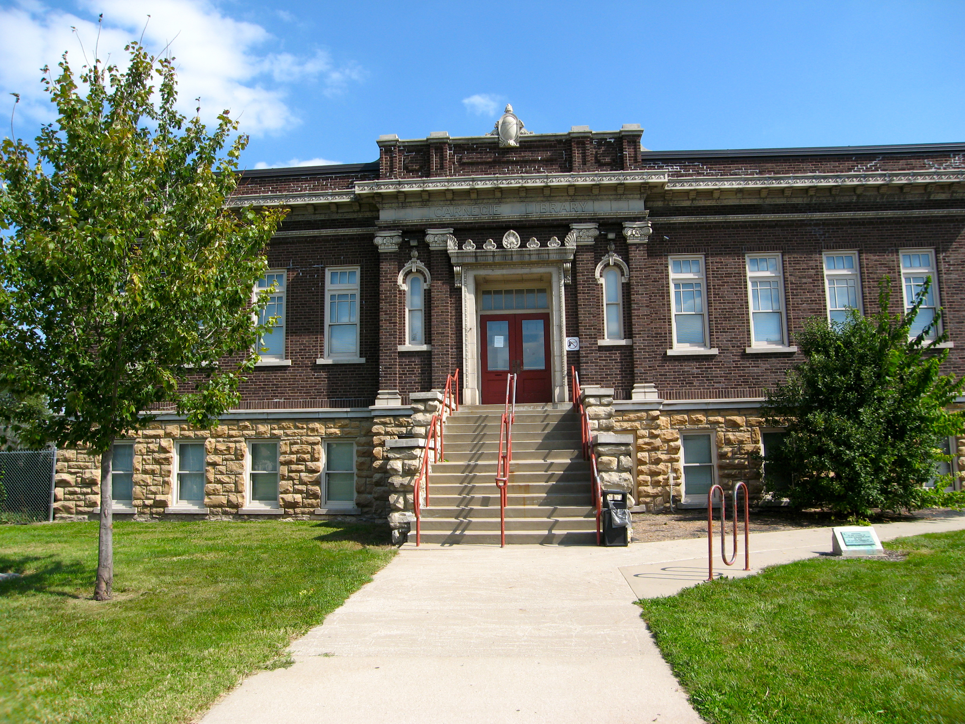 Argentine Carnegie Library, 28th St. and Metropolitan Ave. Kansas City